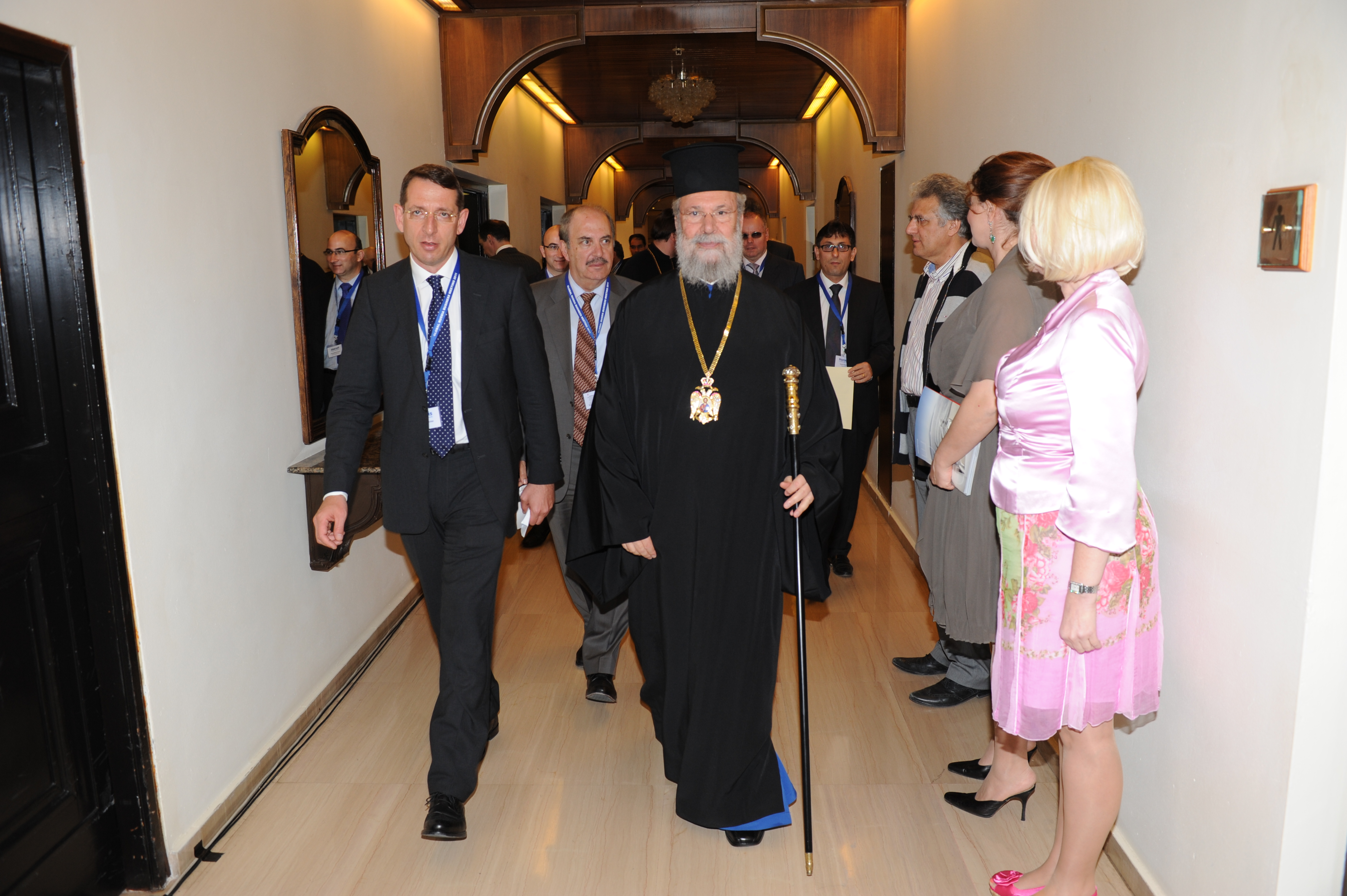 Arrival of His Beatitude Chrysostomos II., Archbishop of New Justiniana and all Cyprus